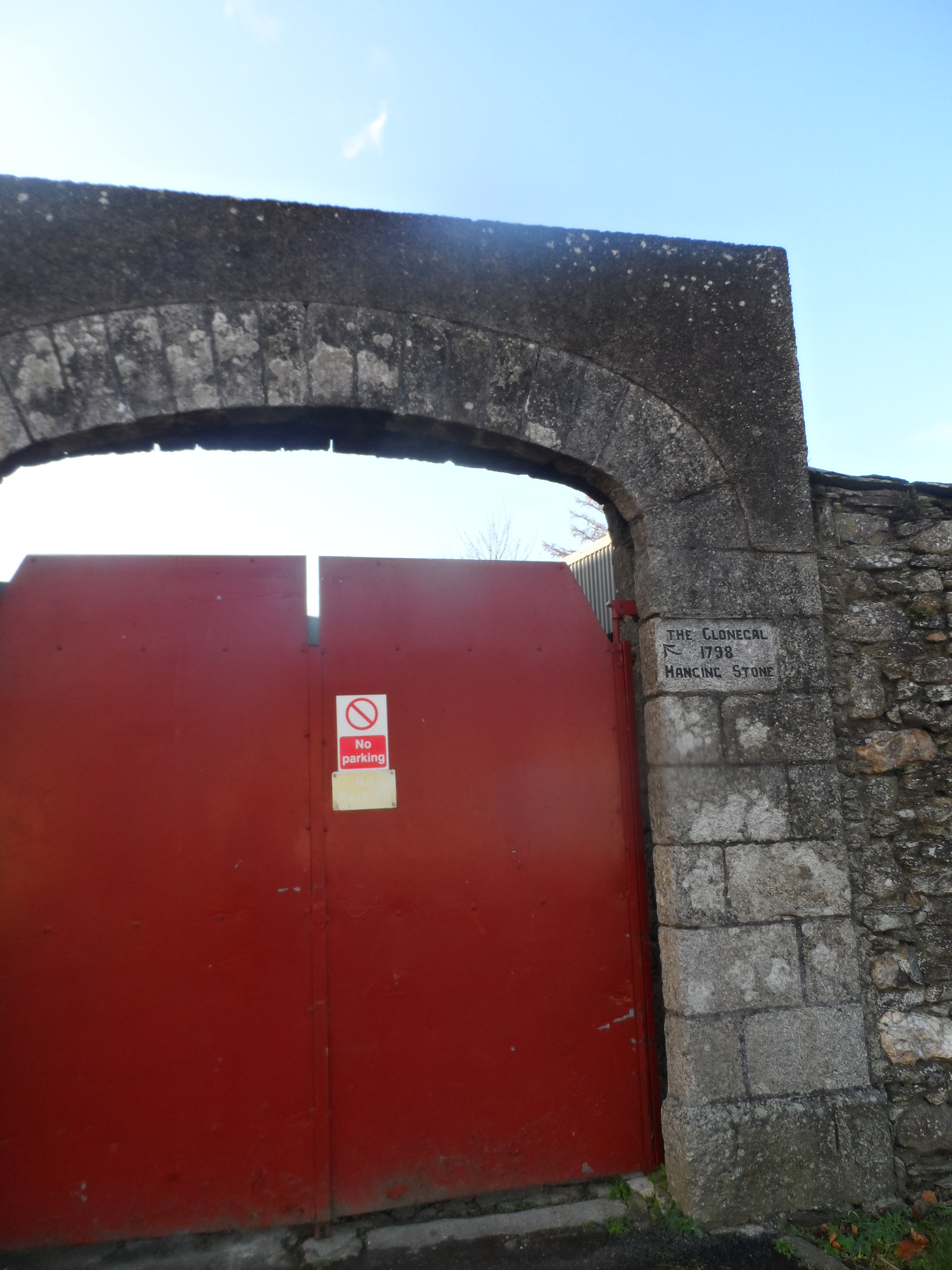 Hanging arch, Clonegal